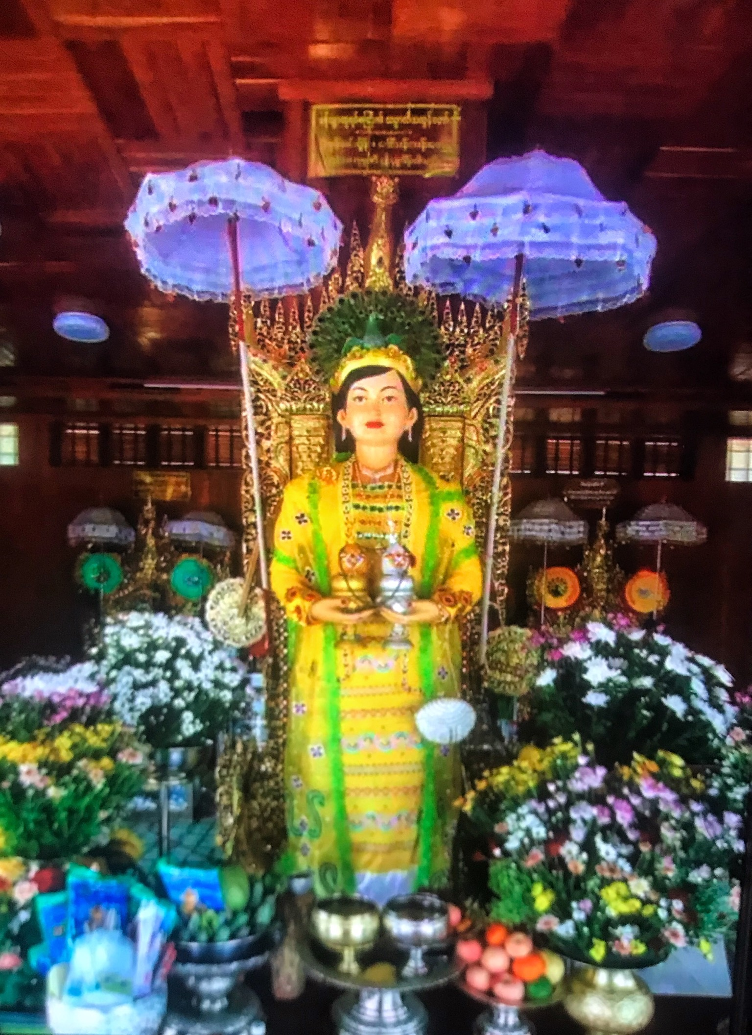 Queen Pan Htwar statue from the shrine